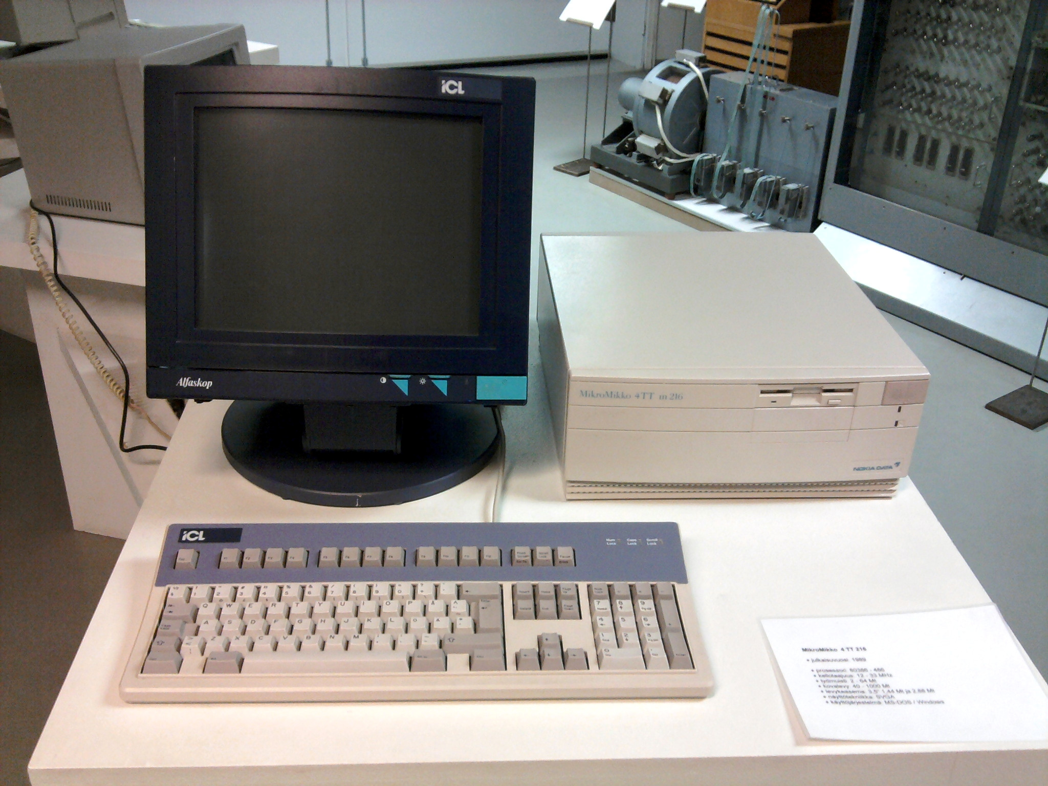 A MikroMikko 4 TT m216 desktop computer paired with a CRT monitor and a keyboard in the Museum of Technology, Helsinki, Finland.